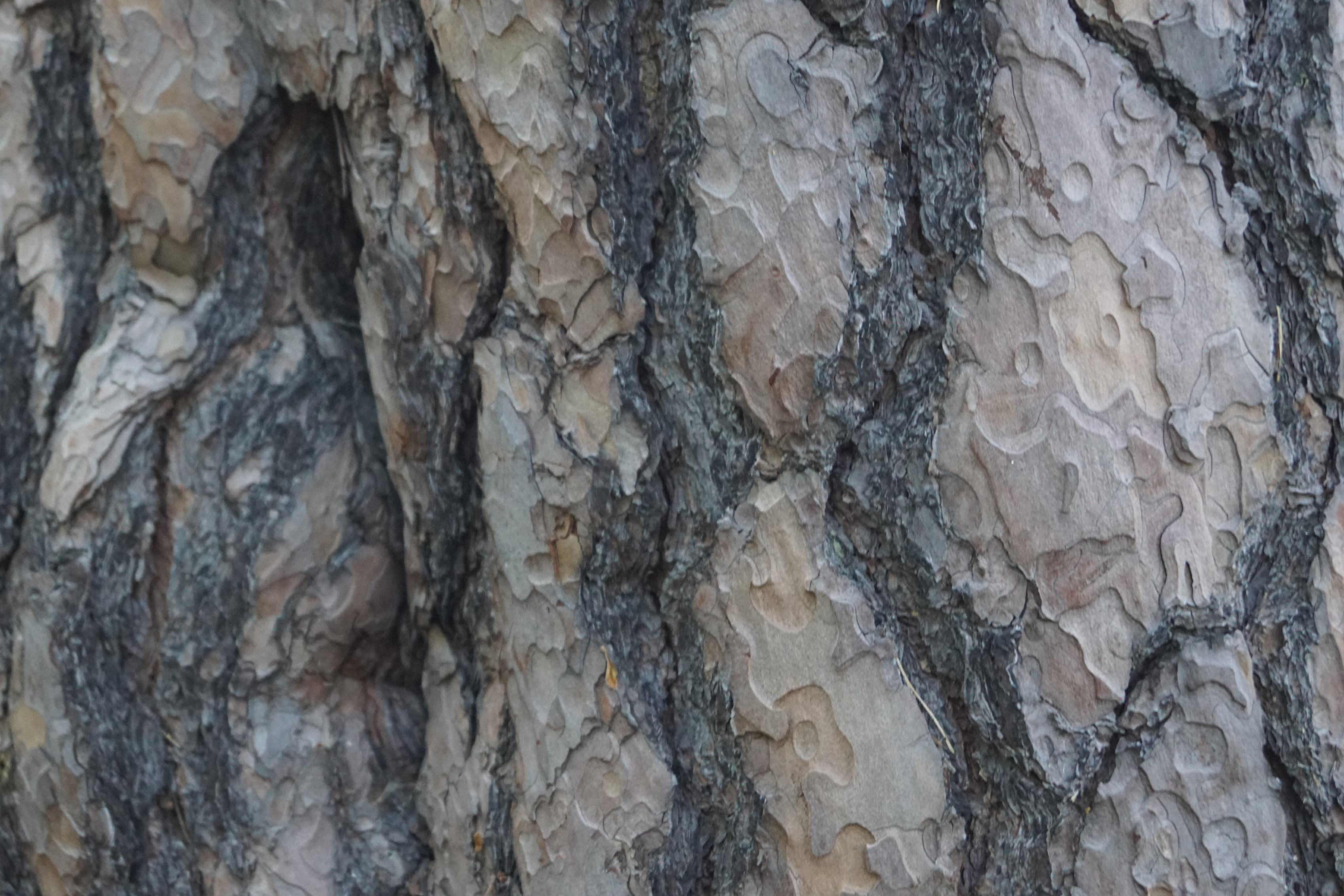 Bark detail of a scots pine in the nature reserve Årstaskogen in Stockholm, Sweden.